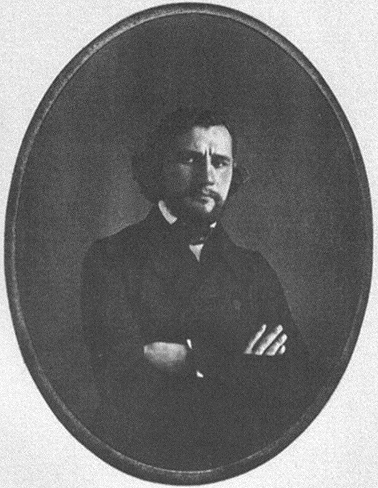 Daguerreotype of Ivan Turgenev (1840s)